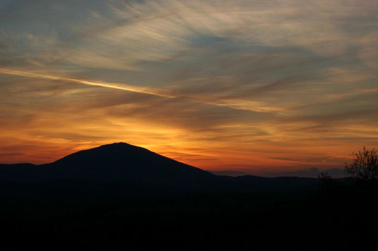 Kolosh summit.